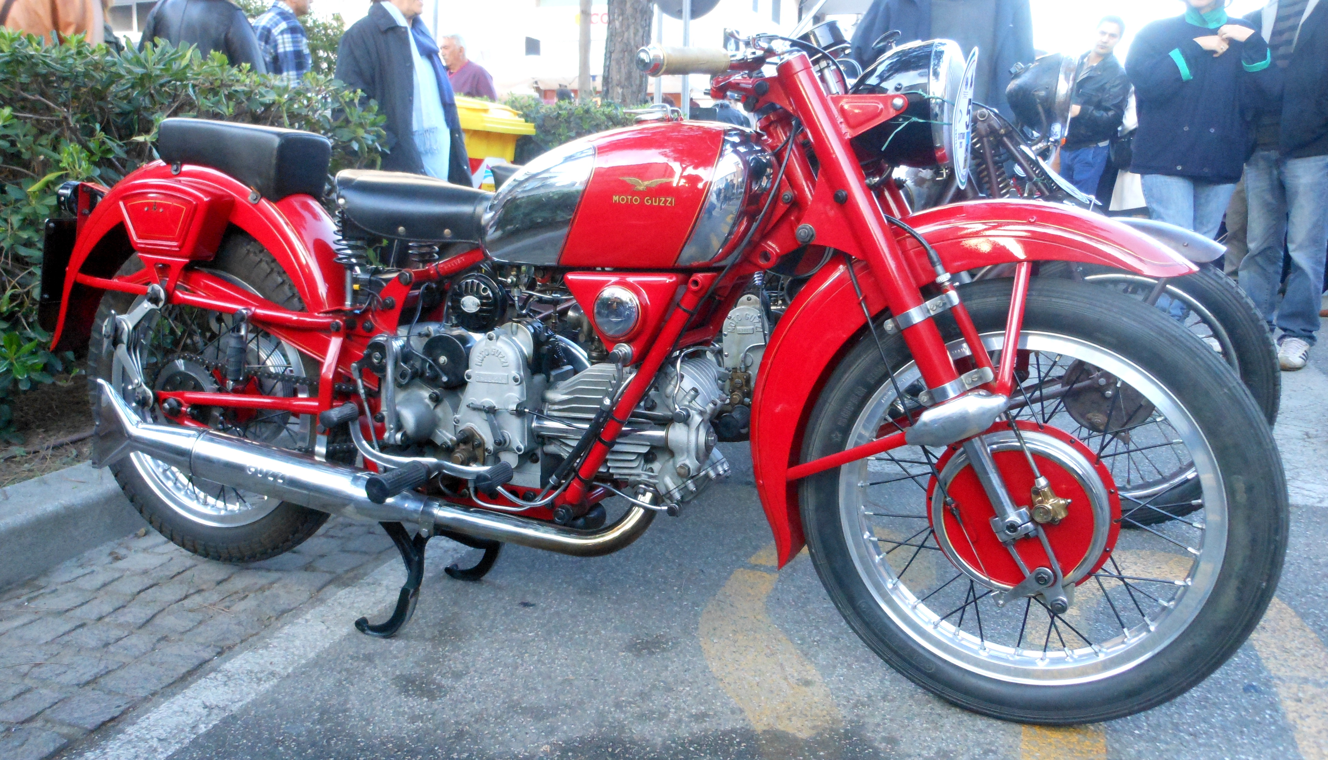 A Moto Guzzi Falcone Sport 500 in Rimini